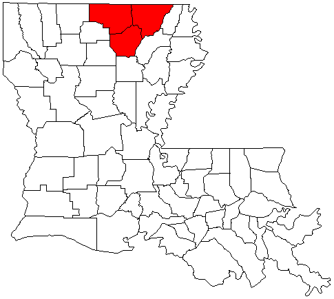 Map of Louisiana highlighting the Monroe Metropolitan Statistical Area; created with the GIMP. Made by User:Acntx.